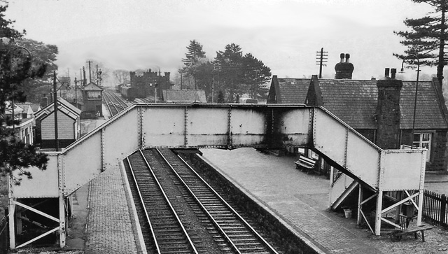 Bala Station View SE from A494, towards Bala Junction on line from Blaenau Ffestiniog (closed 4/1/60). This station closed 18/1/65, when line to Bala Junction closed, along with Ruabon - Morfa Mawddach through route.